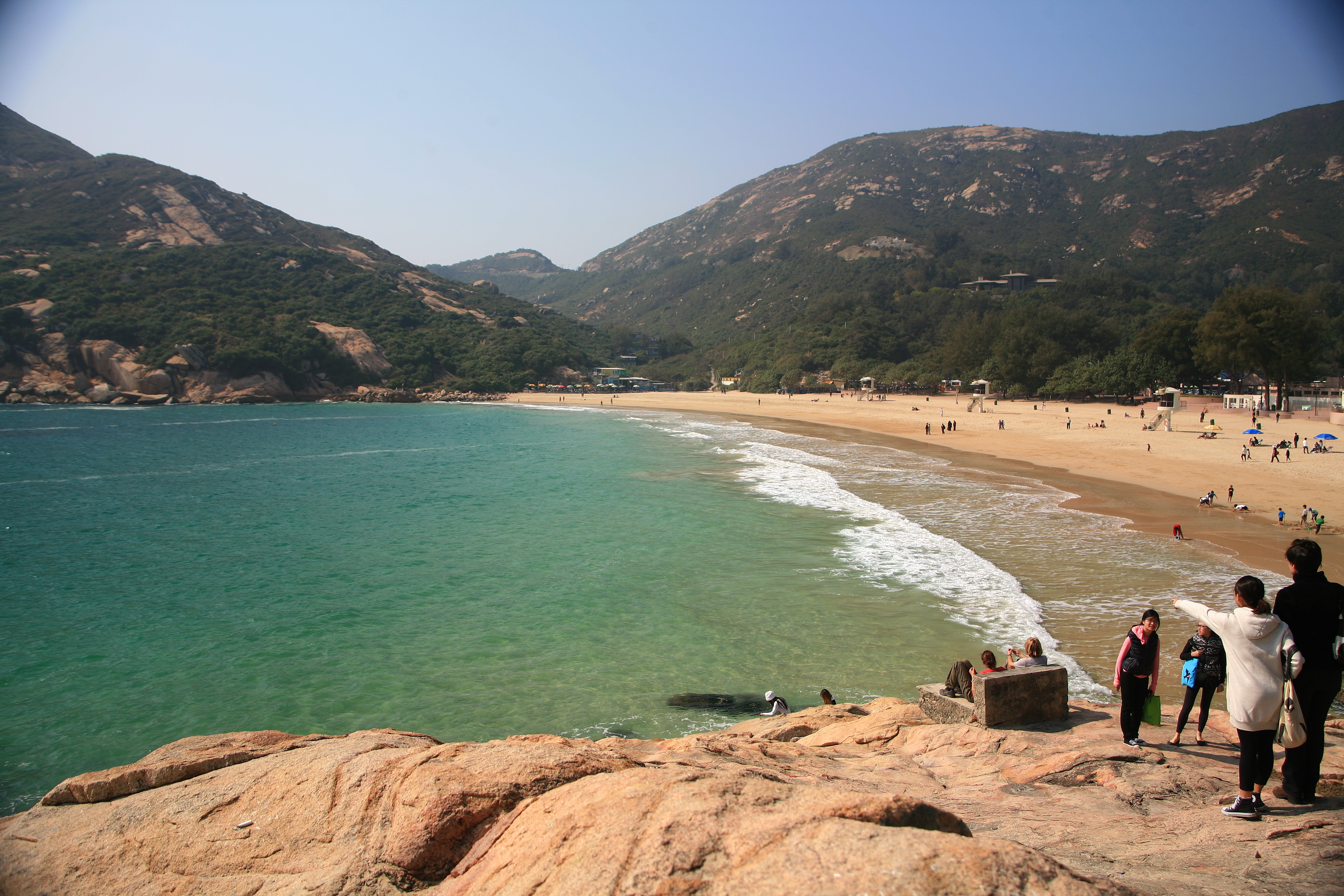 New Year's Day at Shek O Beach, Hong Kong